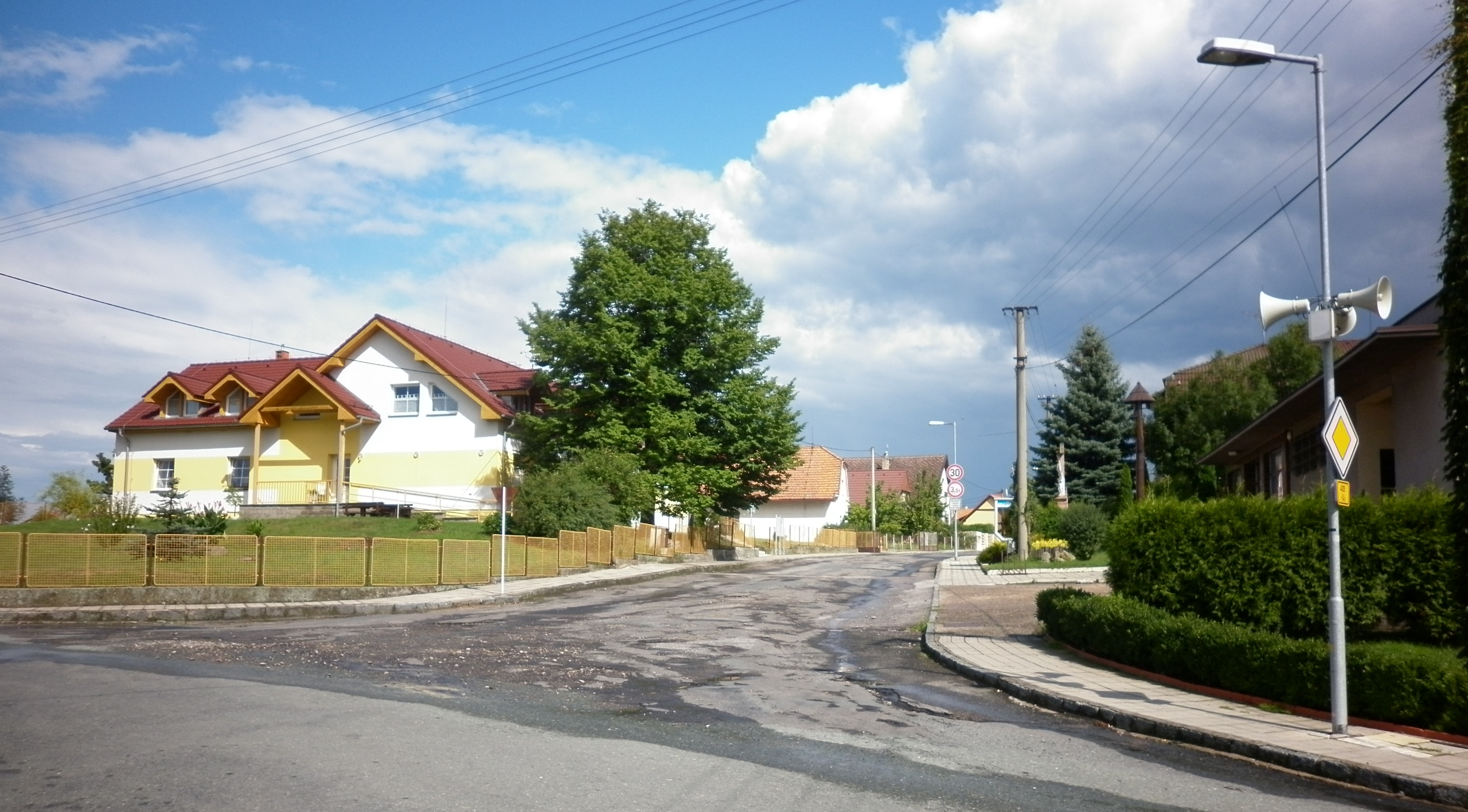 Újezd u Sezemic, in Pardubice District